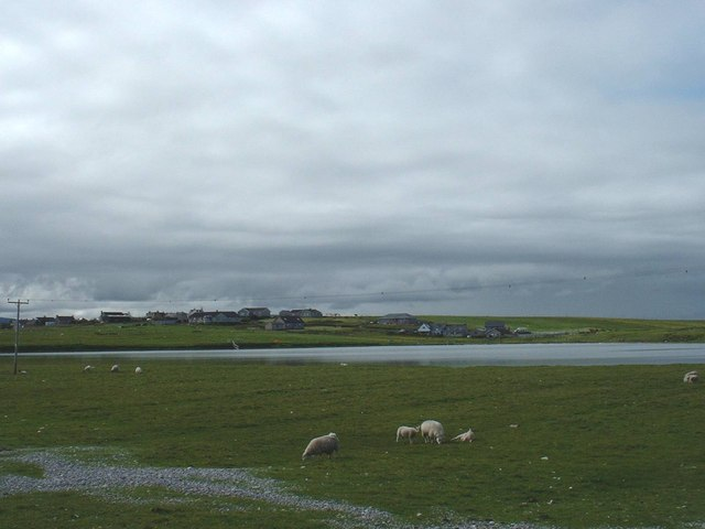 Loch Bràigh na h-Aoidhe This picture of Loch Bràigh na h-Aoidhe was taken from the A866 which connects the Eye Peninsula to Stornoway and the rest of the island, just behind the loch is the village and Stornoway Airport and in front the sheep are grazing. The light coloured area at the bottom of the picture is actually pebbles and shale that was washed over the Bràigh wall during a Hurricane that hit us in January of that year, the Eye Peninsula was totally cut of for 20 hours till the wind and sea subsided enough for a team of diggers and lorries could move in to clear thousands of tons of rubble of the road